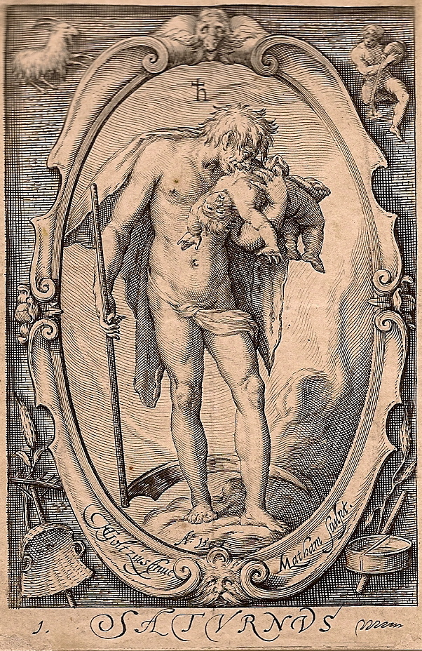 Gravure naar prent van Goltzius Saturn (from The Planets) Hendrick Goltzius